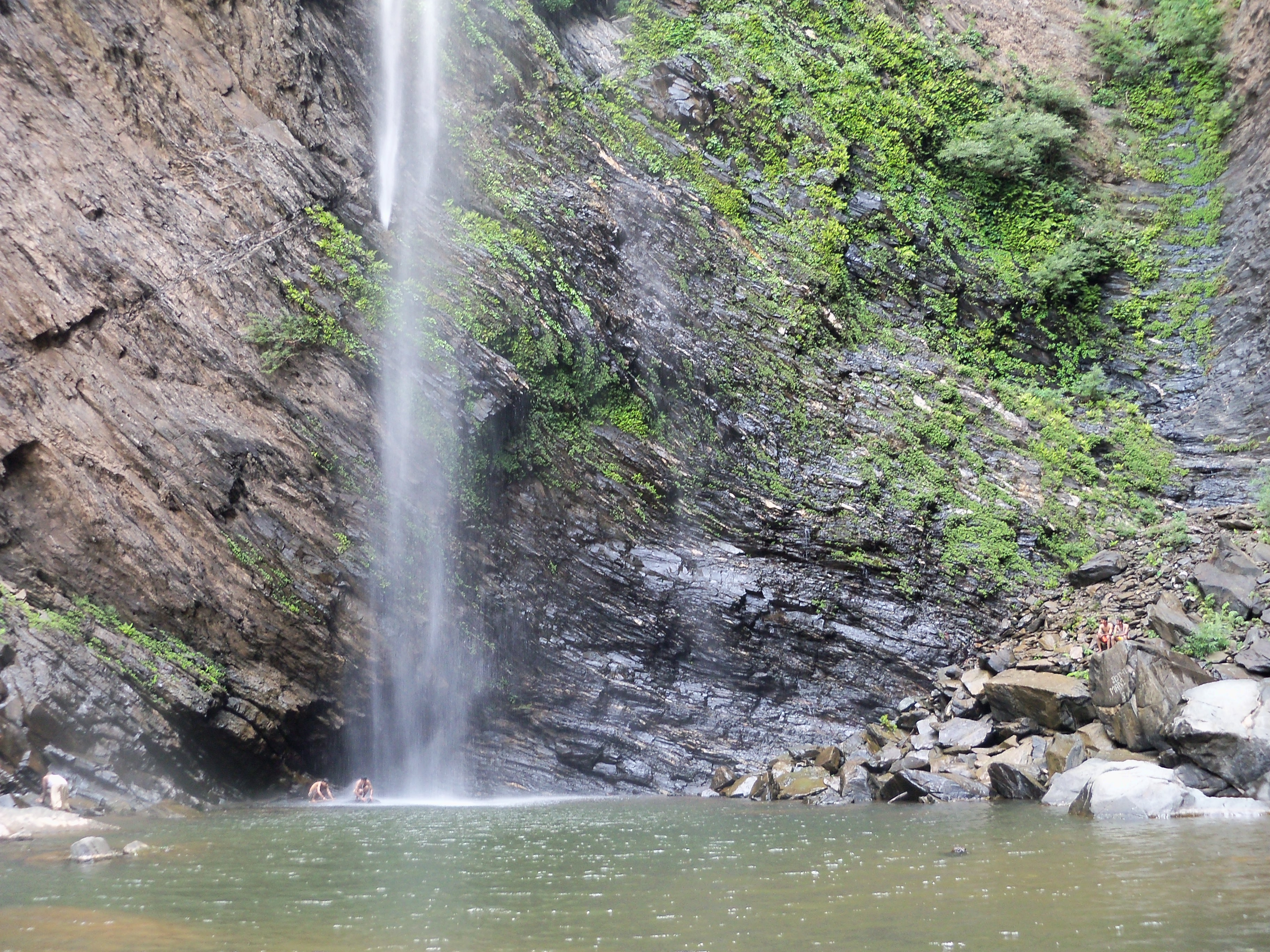 Koodlu thhertha koodlu theertha